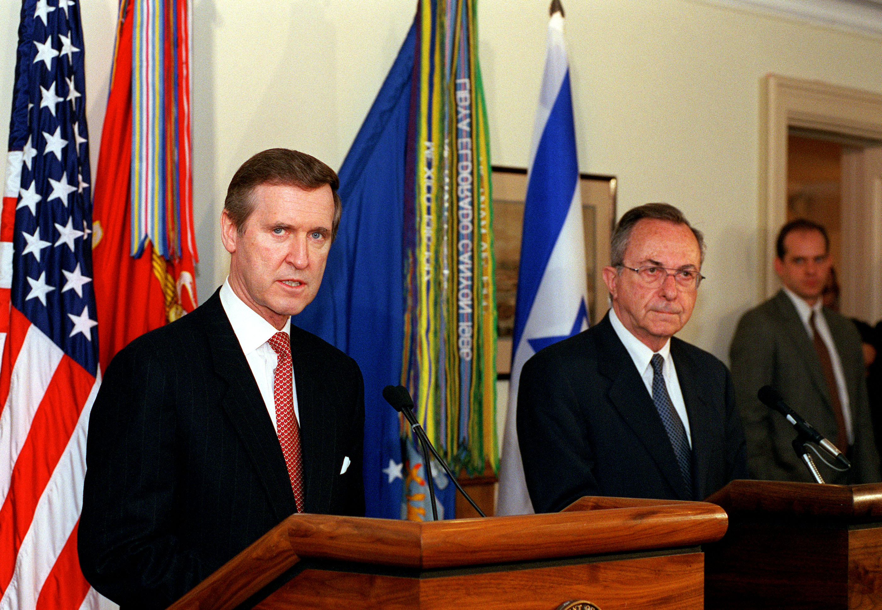 Secretary of Defense William S. Cohen (left) answers a reporter's question during a joint press conference with Israeli Minister of Defense Moshe Arens (right) in the Pentagon on April 27, 1999.